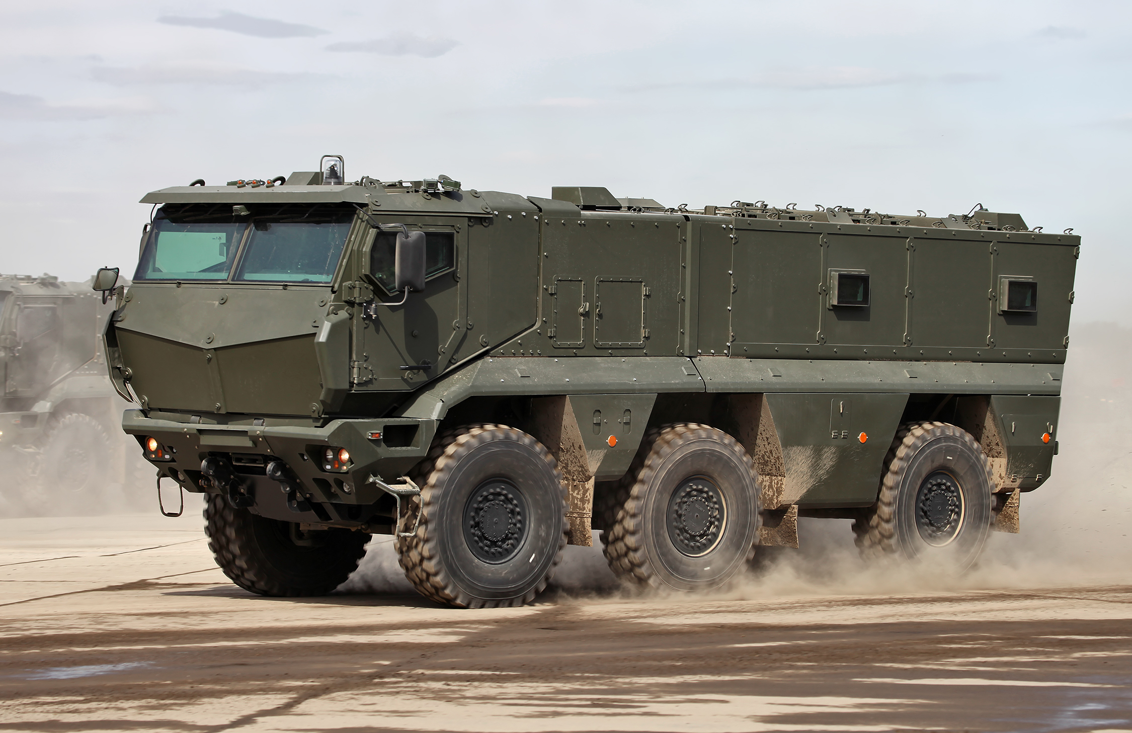 KAMAZ-63968 Typhoon-K MRAP vehicle